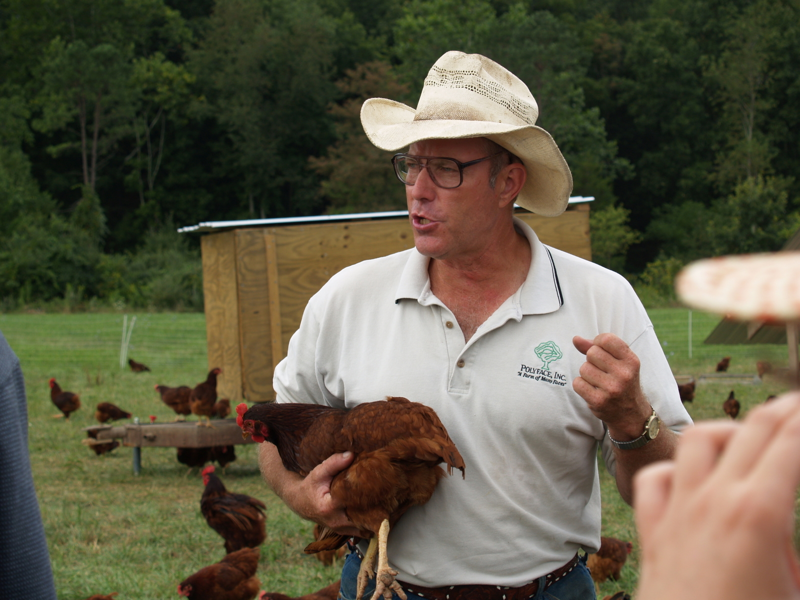 Joel Salatin holds a hen during a tour of Polyface Farm.